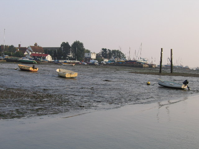 West Mersea Original description: West Mersea at low tide The photo was taken from the pontoon looking back towards the slipways.